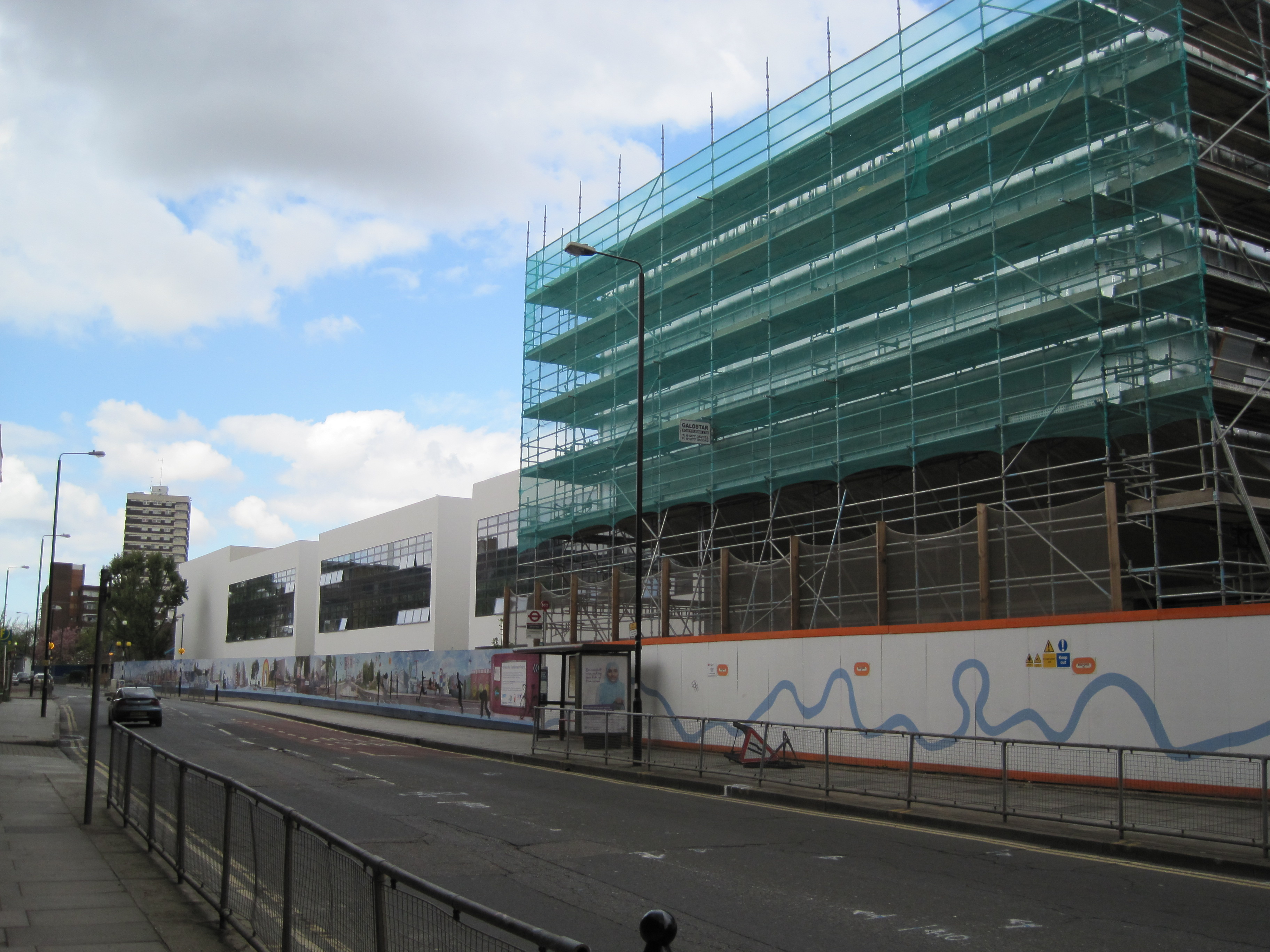 St Paul's Way School, new building under construction in 2010; hoarding has a mural by Emily Allchurch